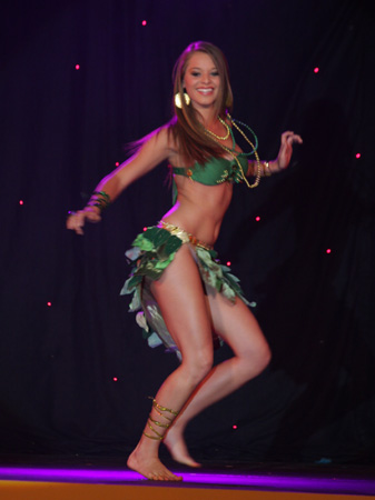 Miss Costa Rica 2008 Amalia Matamoros during the talent show of Miss World 08 in Johannesburg